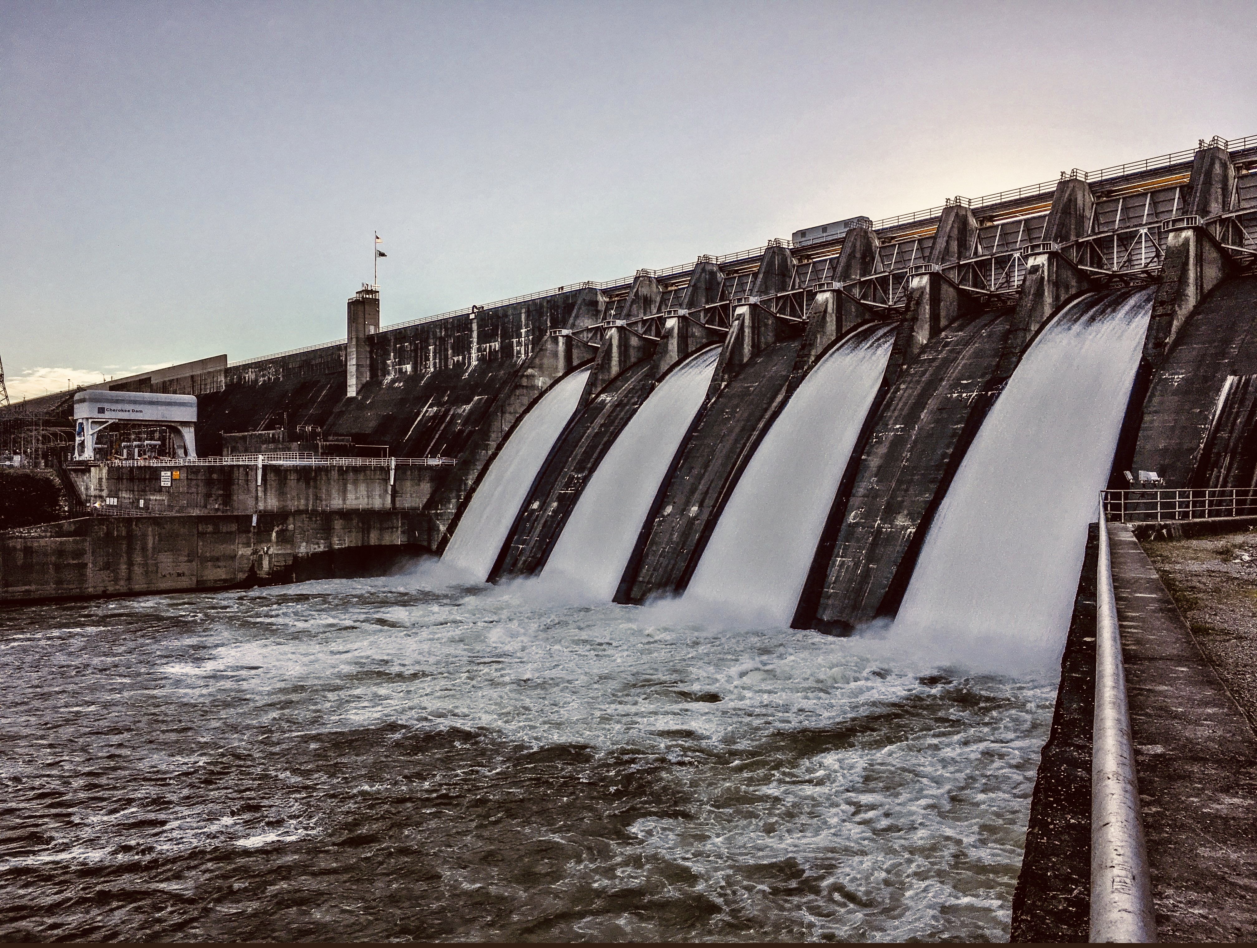 TVA’s Cherokee Dam near the Grainger/Jefferson County border in Tennessee with floodgates open circa 2018